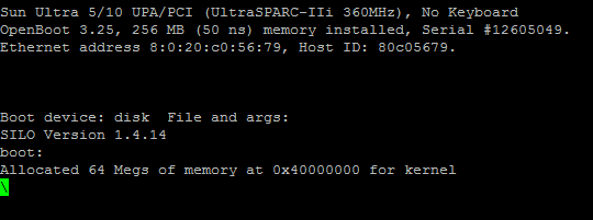 Typical boot up sequence.